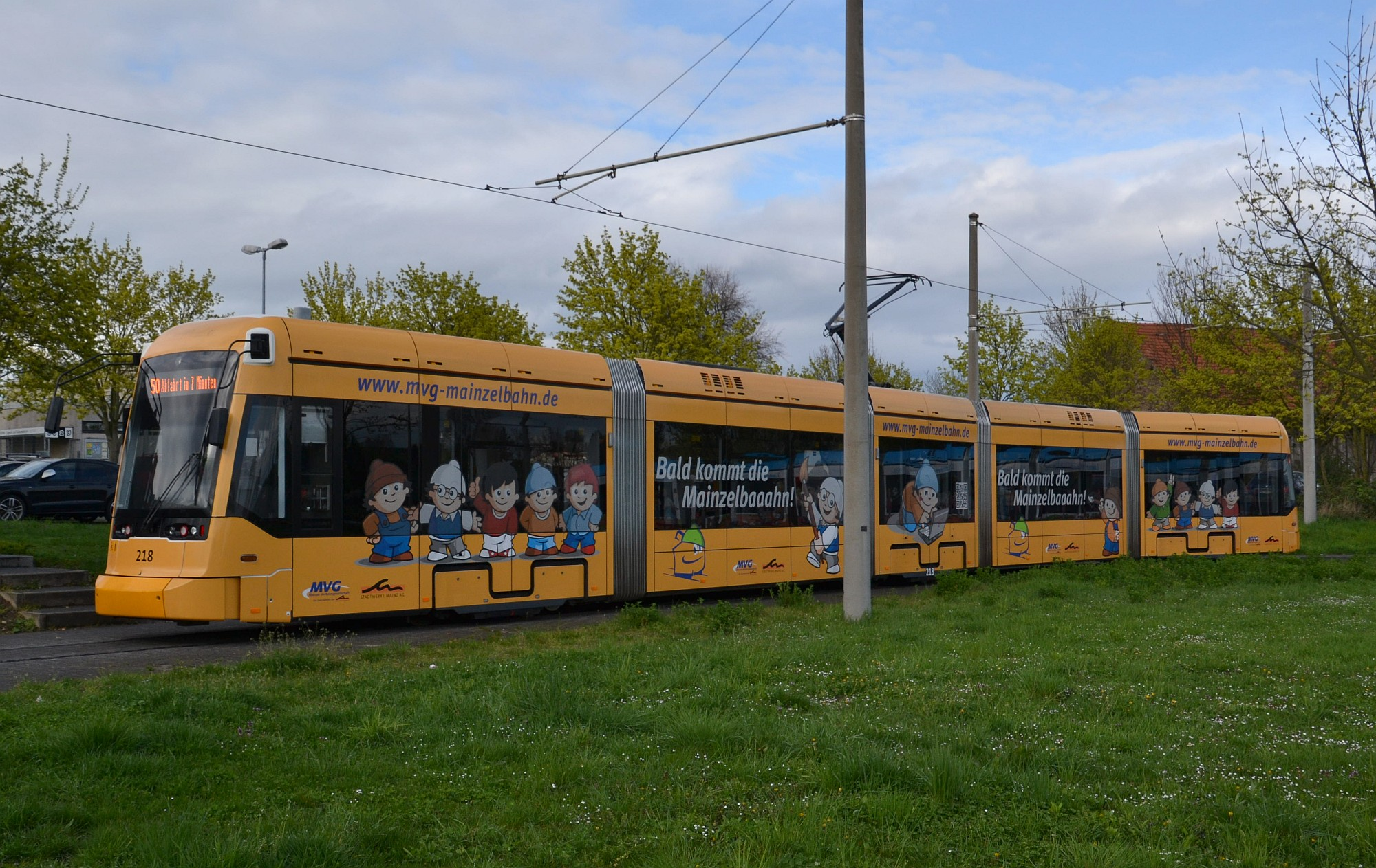 Tramways of Mainz: Stadler Variotram No. 218 at terminus loop Hechtsheim Bürgerhaus. The decoration displays the "Mainzelmännchen" and features the so-called "Mainzelbahn" network extension, opened for revenue service in december 2016